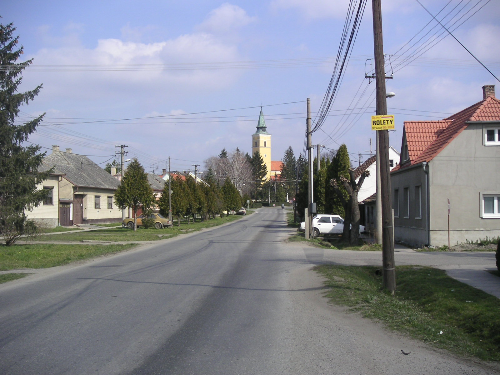 View on Church and Street in Kostolište, Slovakia